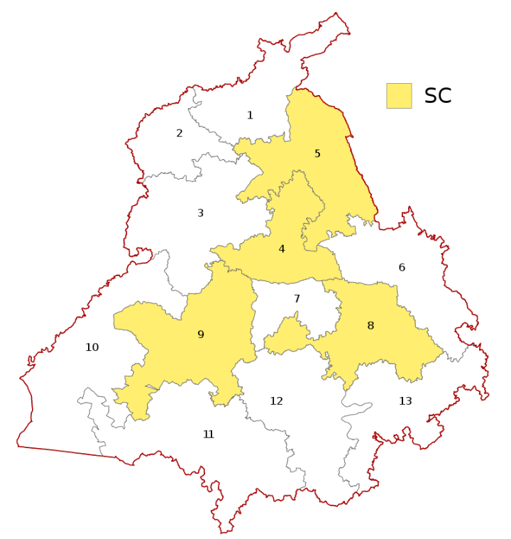 Map of Punjab Lok Sabha constituencies